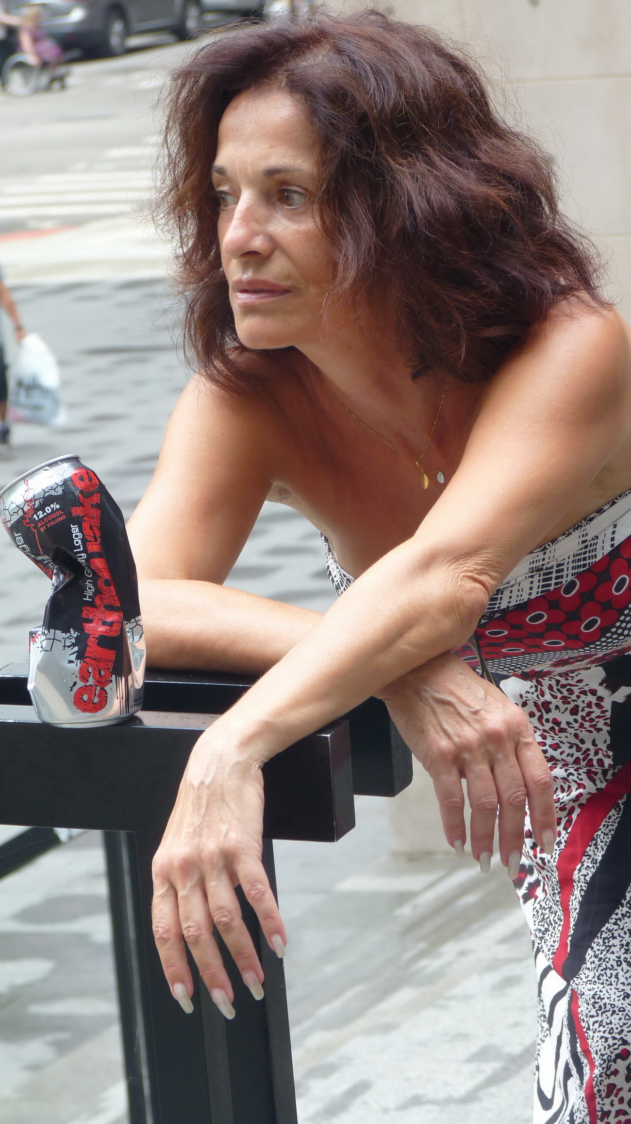 Corine Sylvia Congiuc in 2013